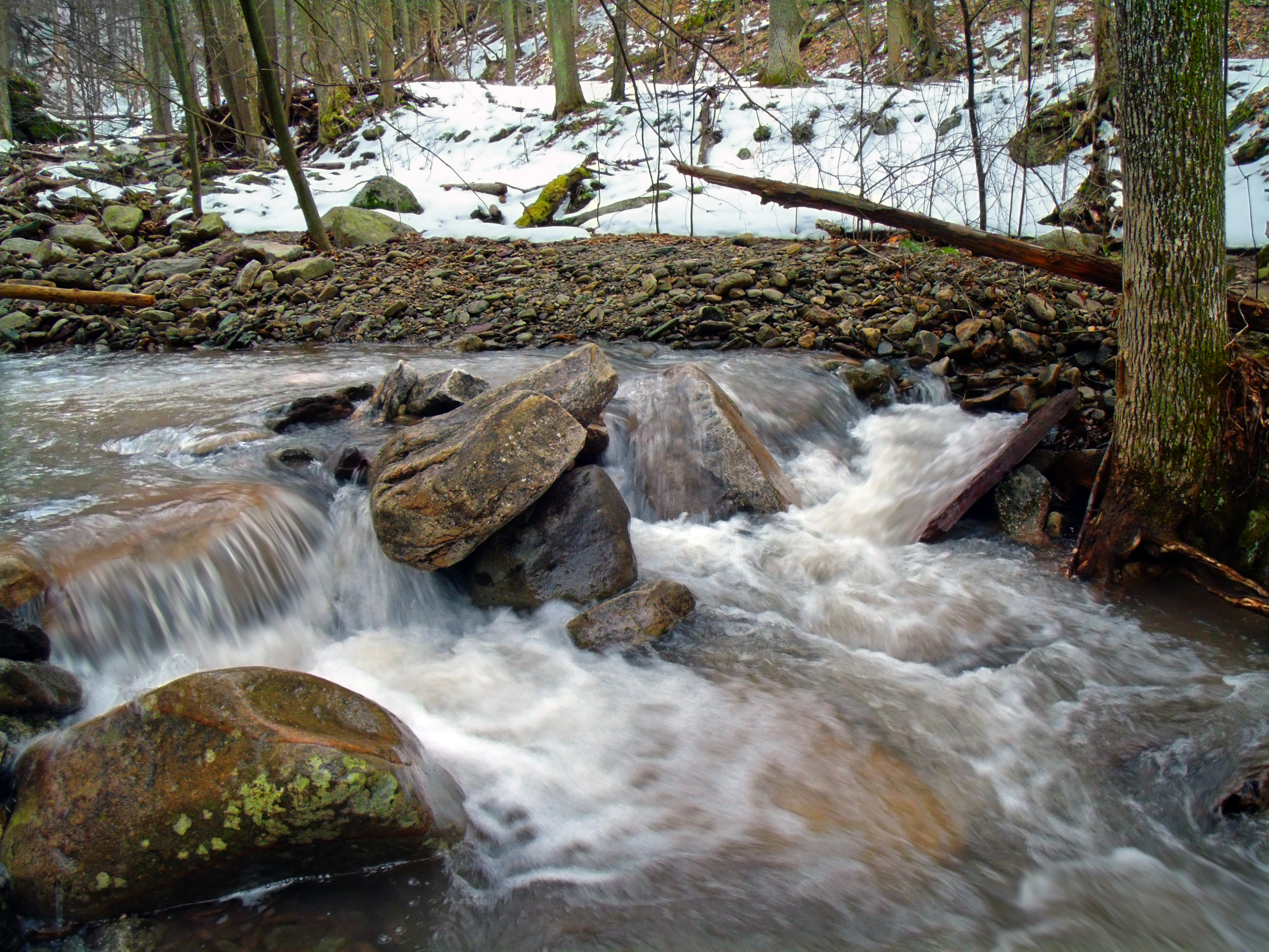 State Game Land 57, Wyoming County. White Brook descends Bartlett Mountain in a deep ravine of cobblestones, boulders, and a forest of hemlocks and northern hardwoods. (Many trees, I noted, were infested with the hemlock woolly adelgid.) Along its length are many cascades and small waterfalls.